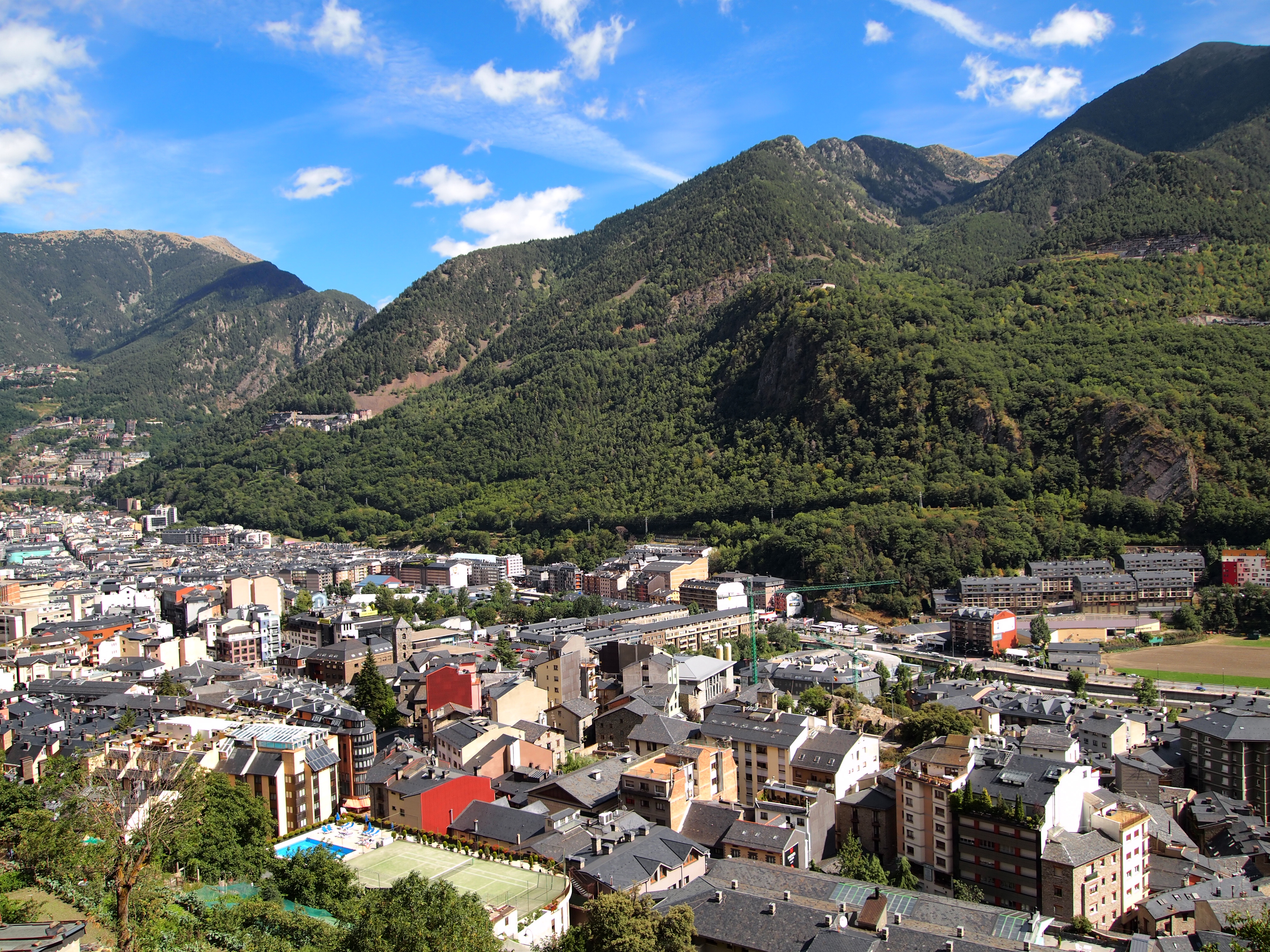 View of Andorra la Vella with mountain. This photograph was taken with a Olympus E-PL1.